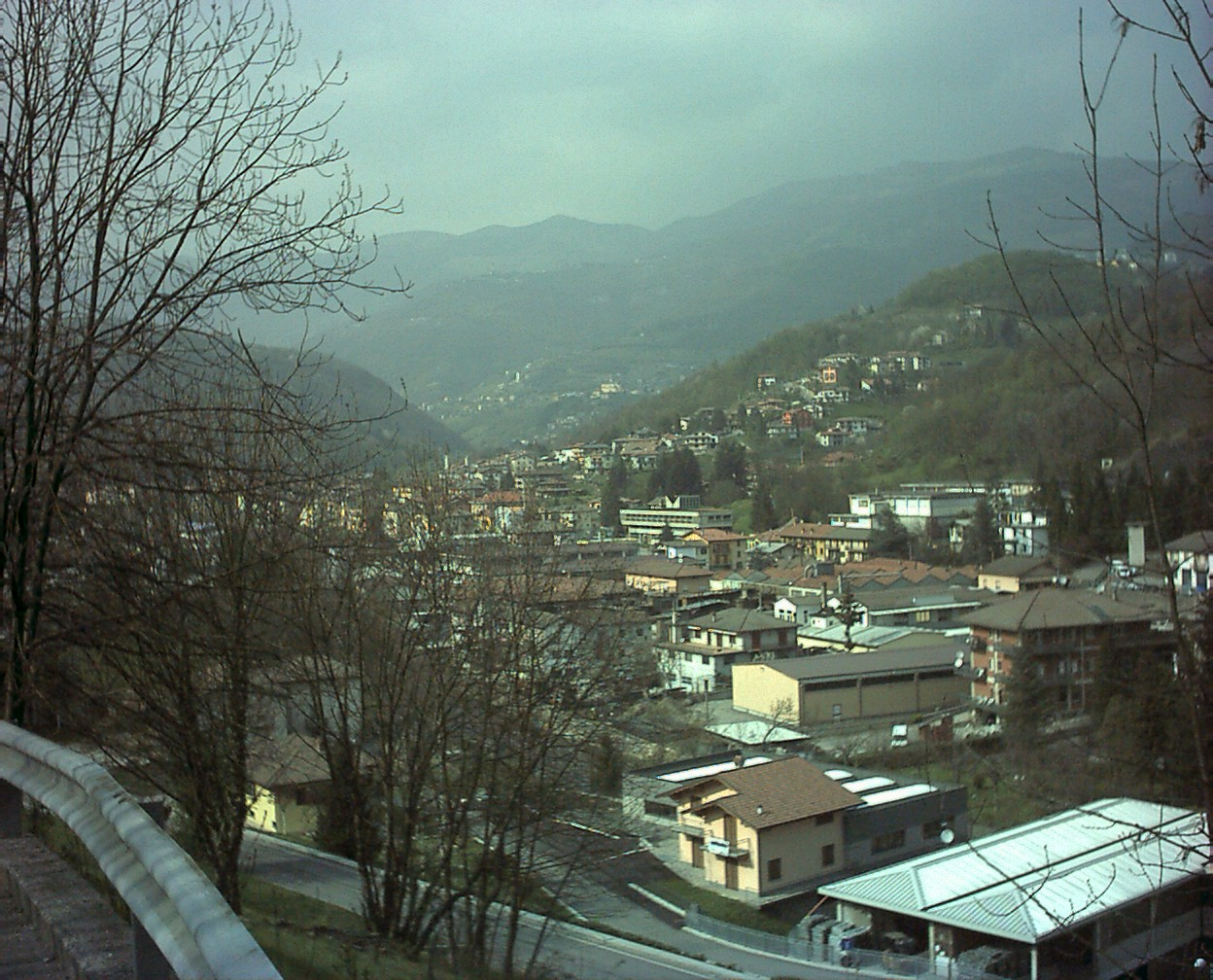 View of Sant'Omobono Imagna, Bergamo, Italy